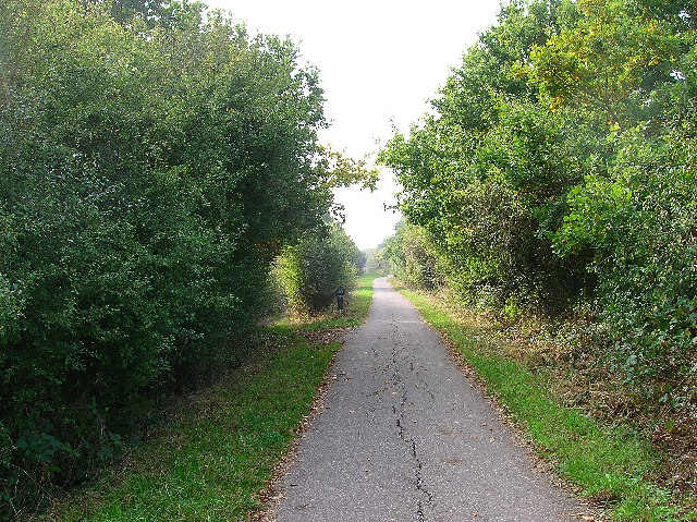 Cuckoo Trail between Polegate and Hailsham. Looking south between Summerhill Lane and Mulbrooks Farm.